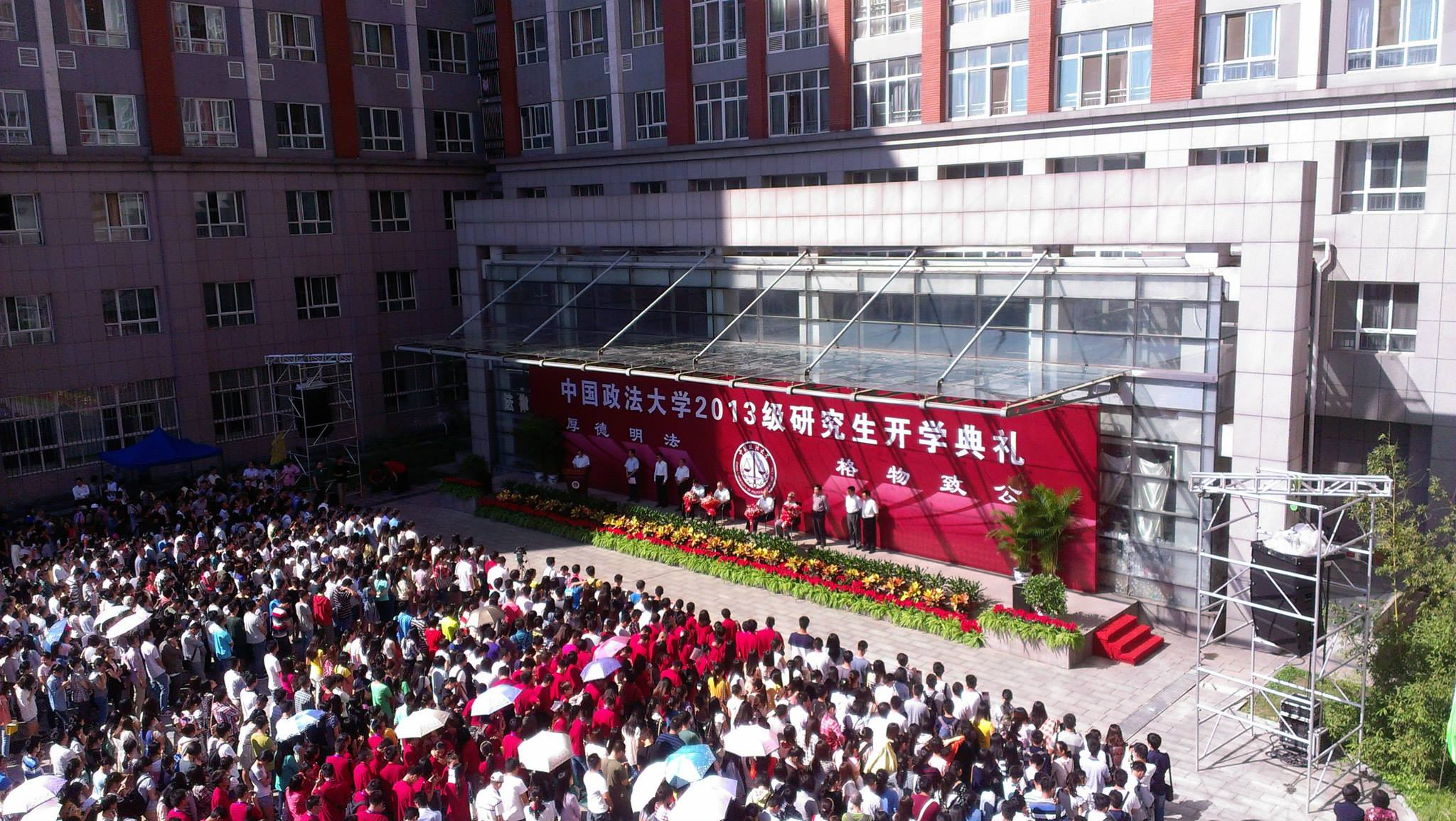 MBA Ceremony at Haidian Campus Dormitory